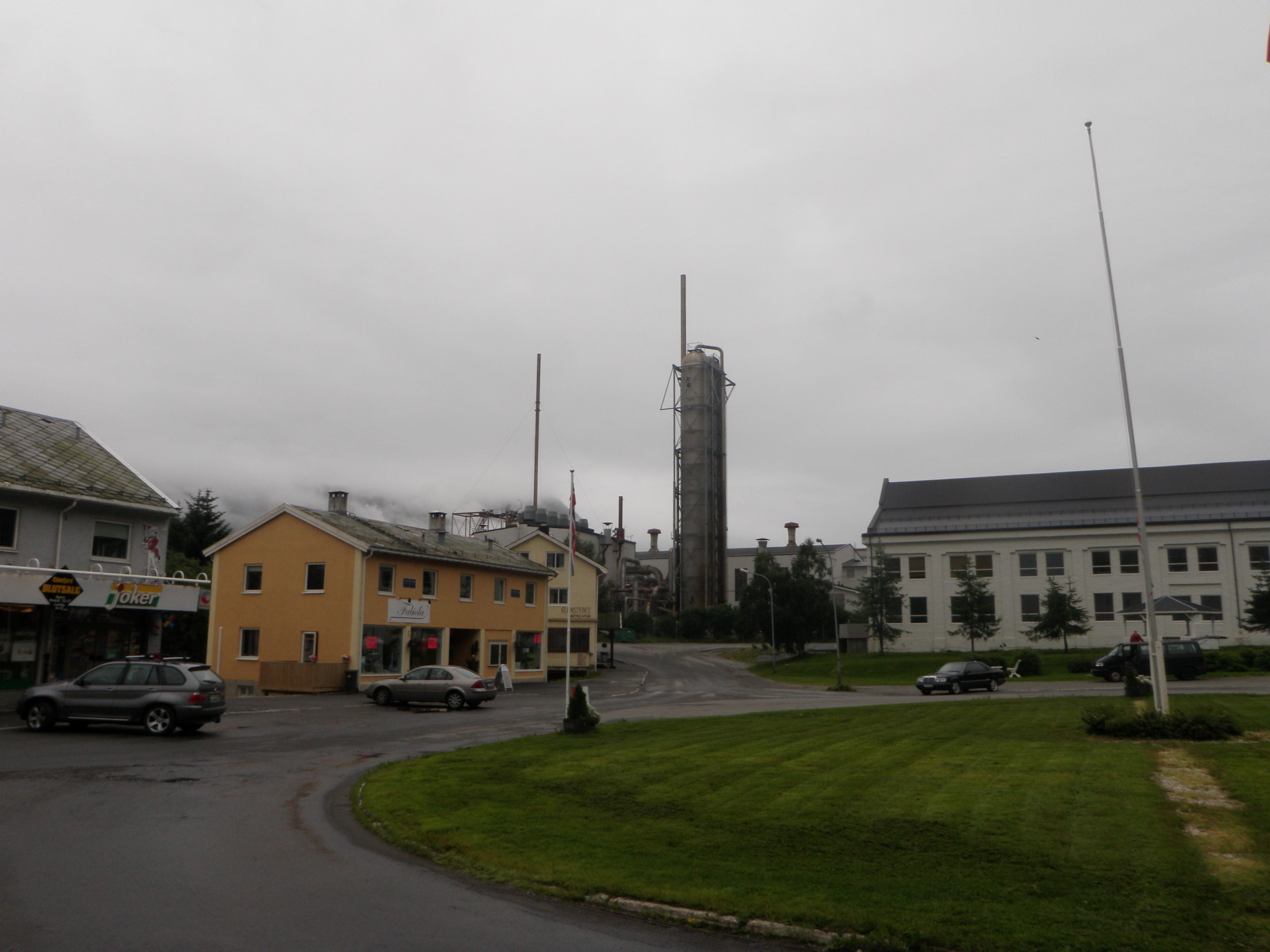 The centre of the Norwegian industrial town Glomfjord.